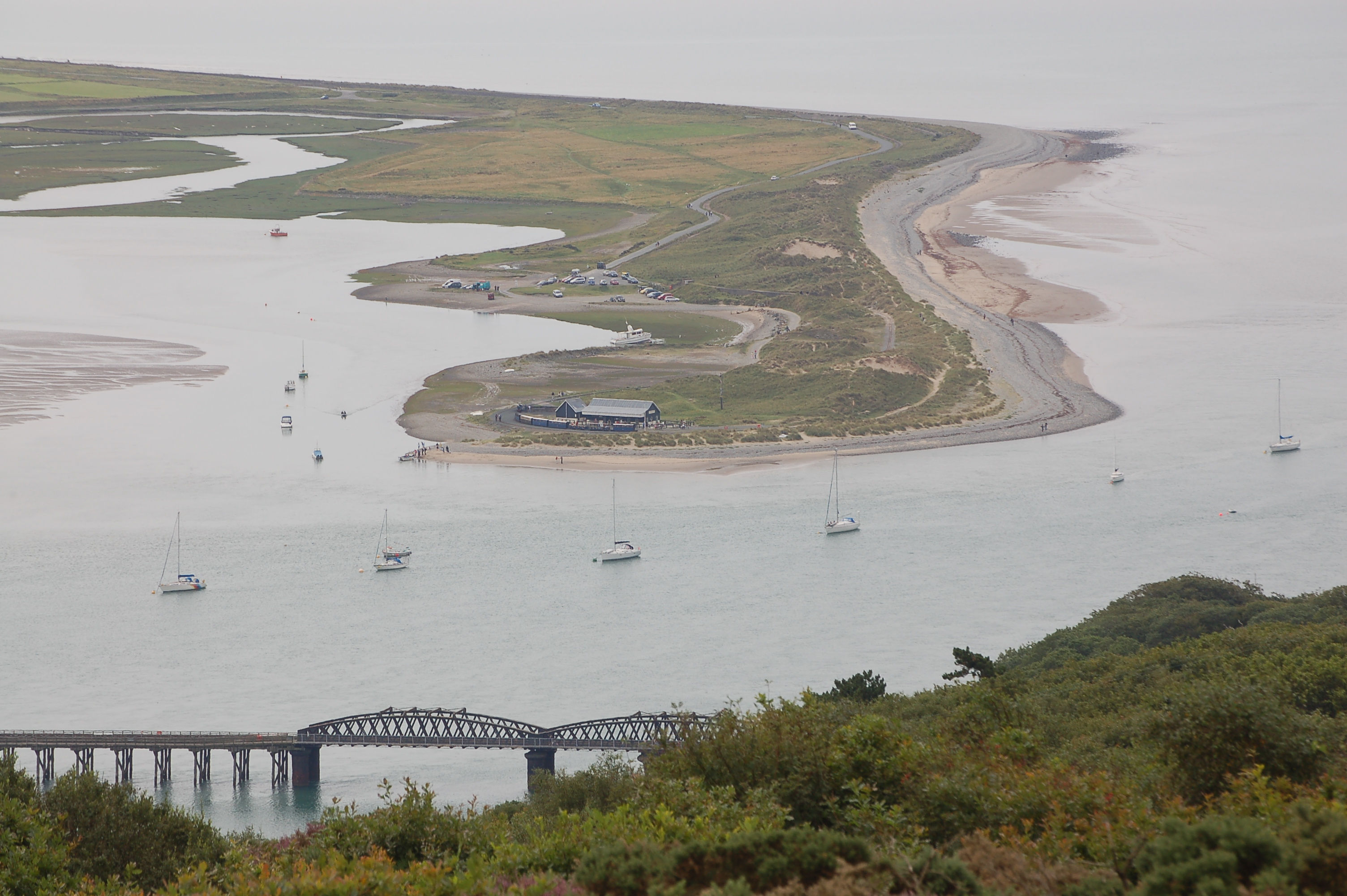 Fairbourne Spit/Penrhyn Point at the mouth of the Mawddach River, Gwynedd, Northwest Wales, viewed from Barmouth 'Panorama' viewpoint.